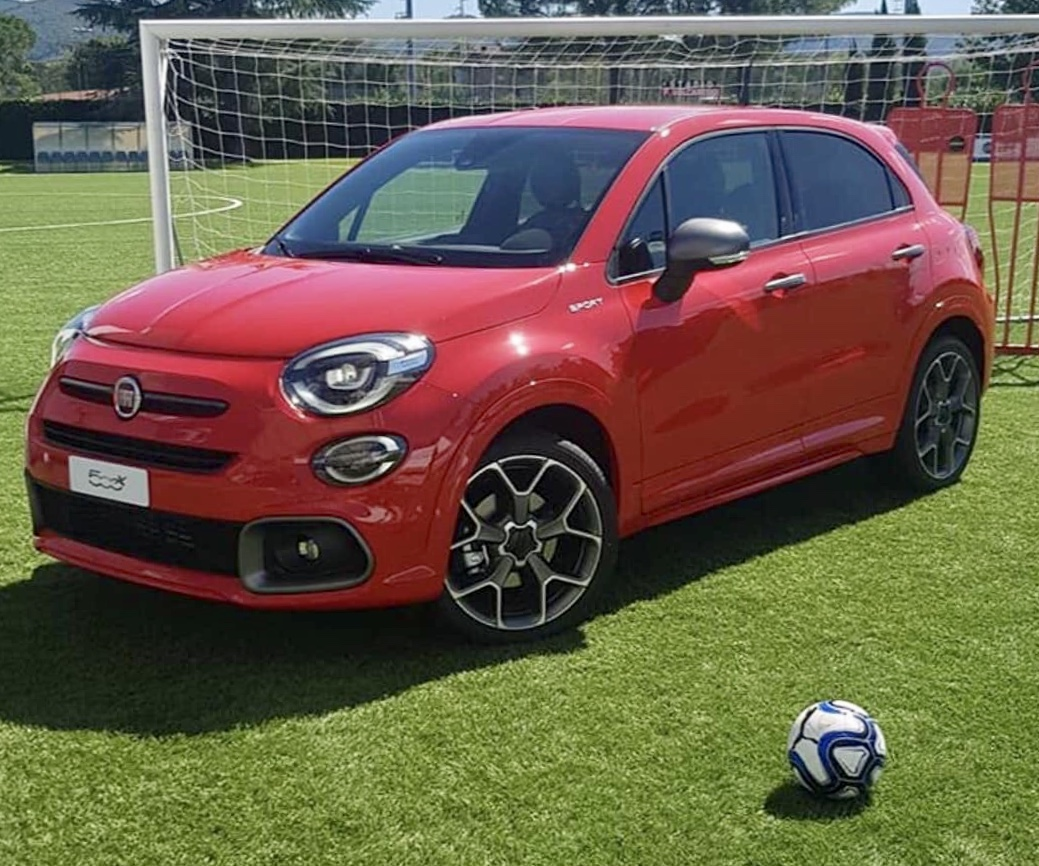 2019 Fiat 500X Sport 1.3 Turbo FireFly 150